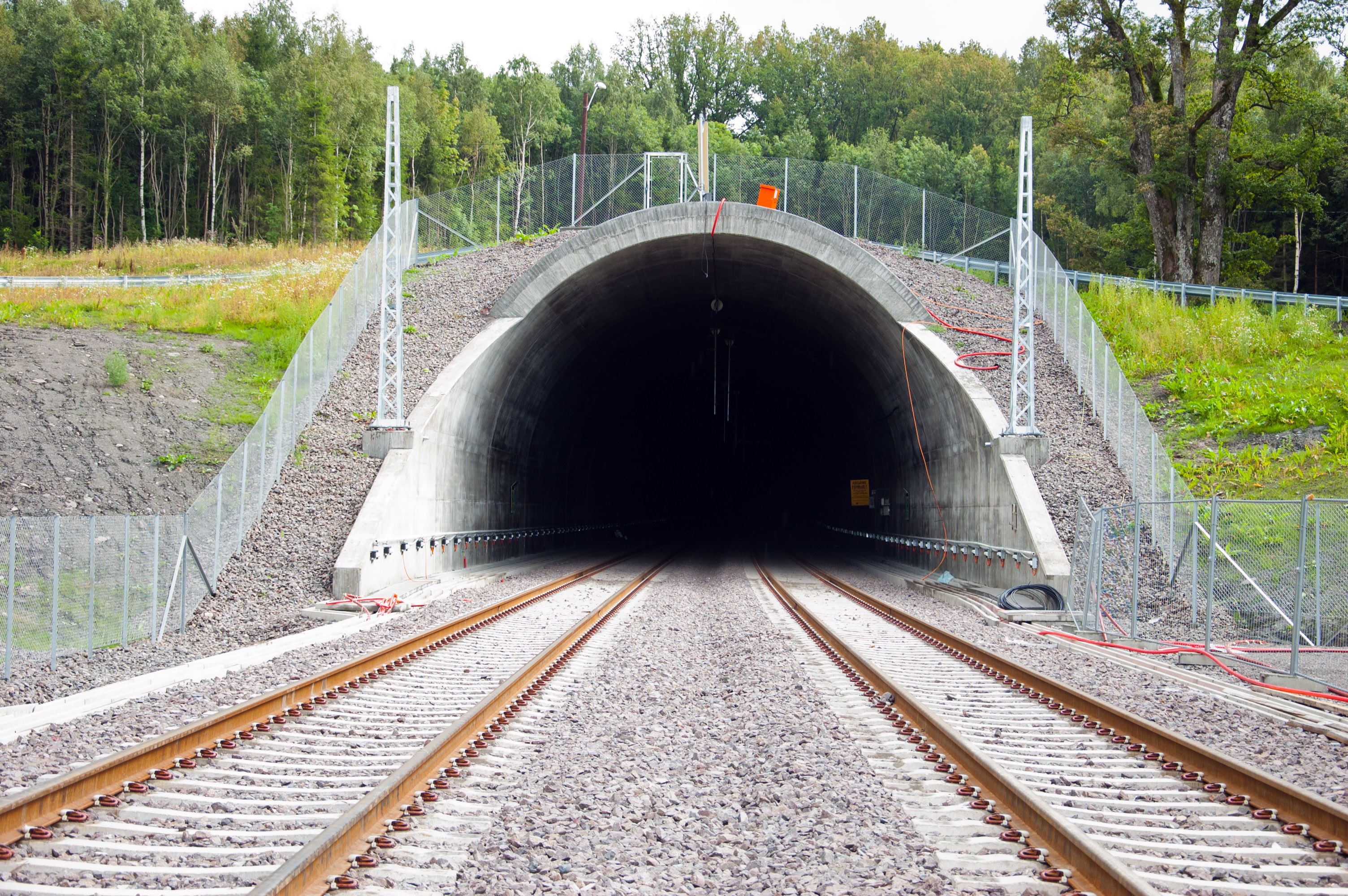 Jarlsbergtunnelen is a railway tunnel under construction in Tønsberg, Vestfold, Norway. It will be part of the Vestfold Line.